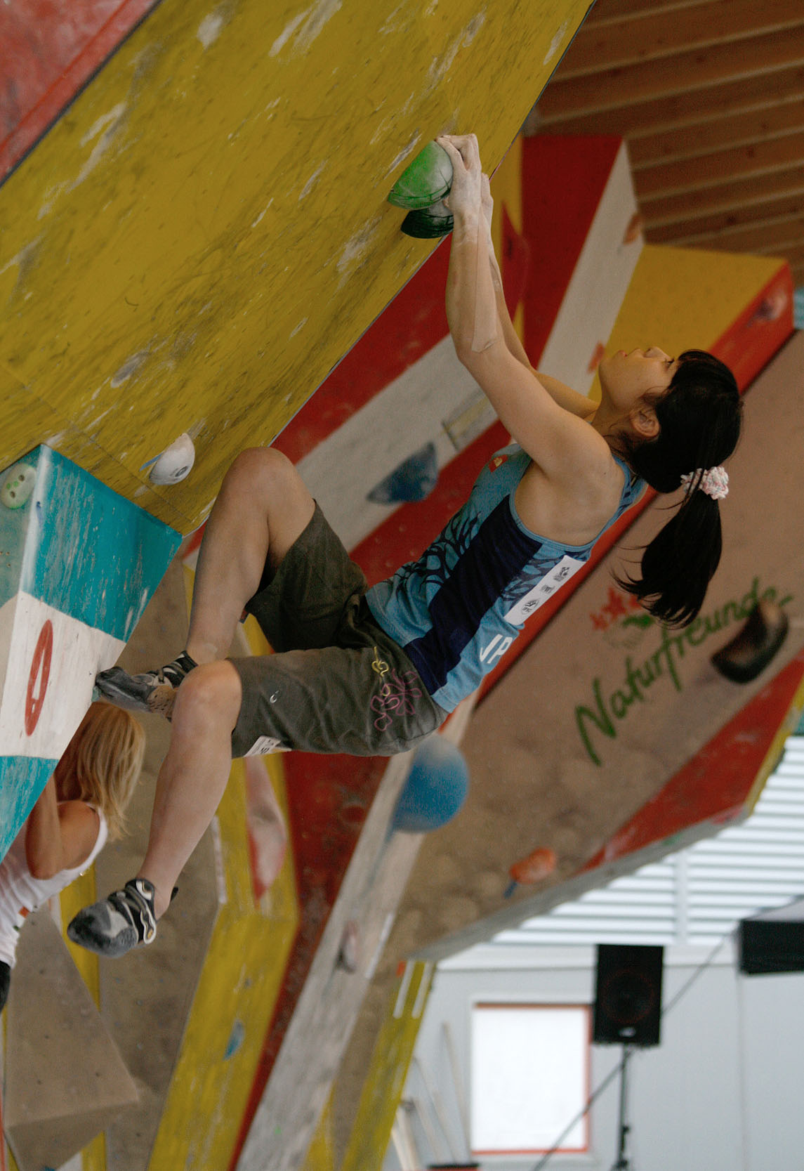 Momoka Oda and Szilvia Varga during qualifications at the IFSC Boulder Worldcup Vienna 2010.